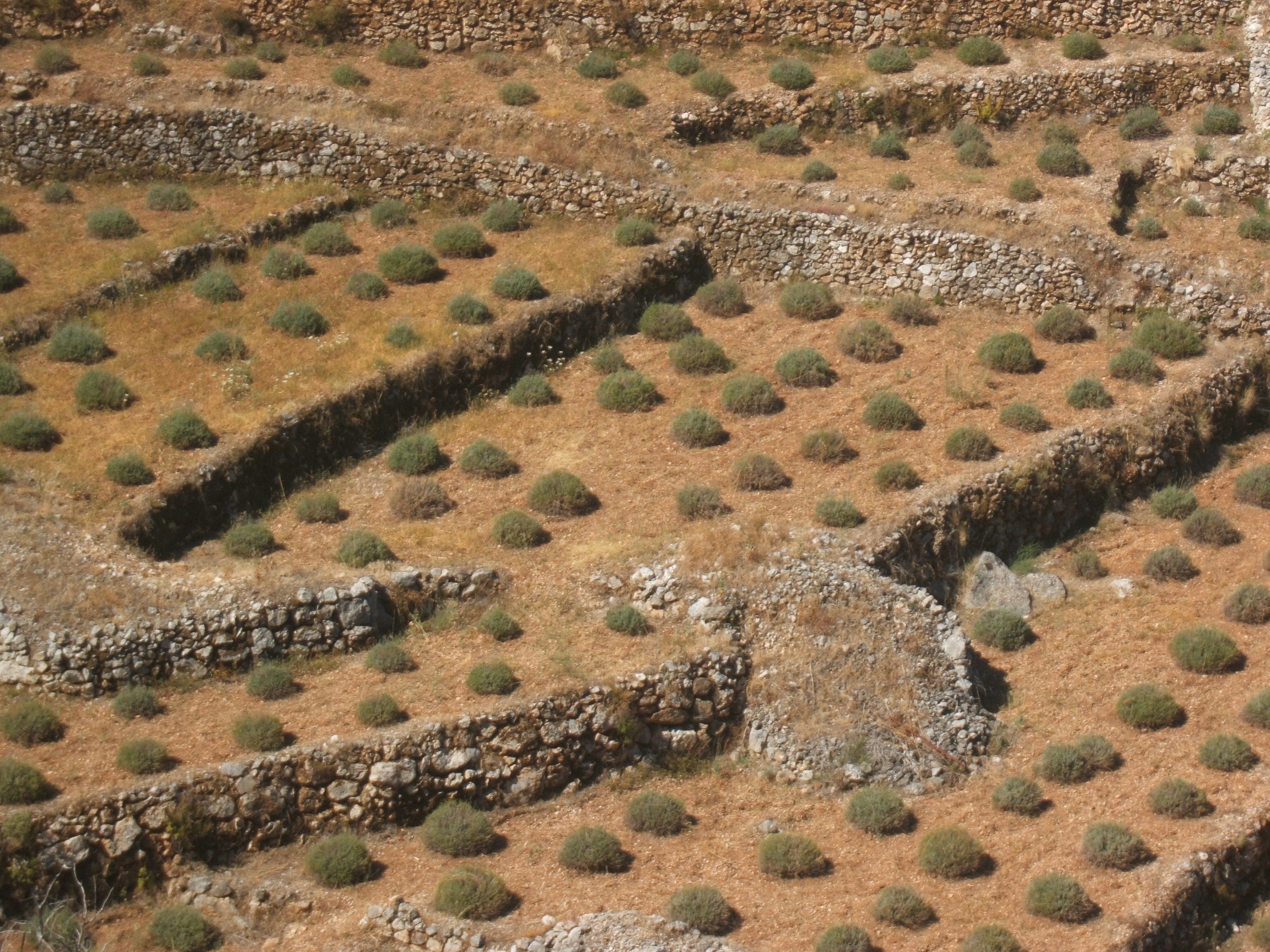 Lavender field near the old road between Stari Grad and Hvar on the island of Hvar.